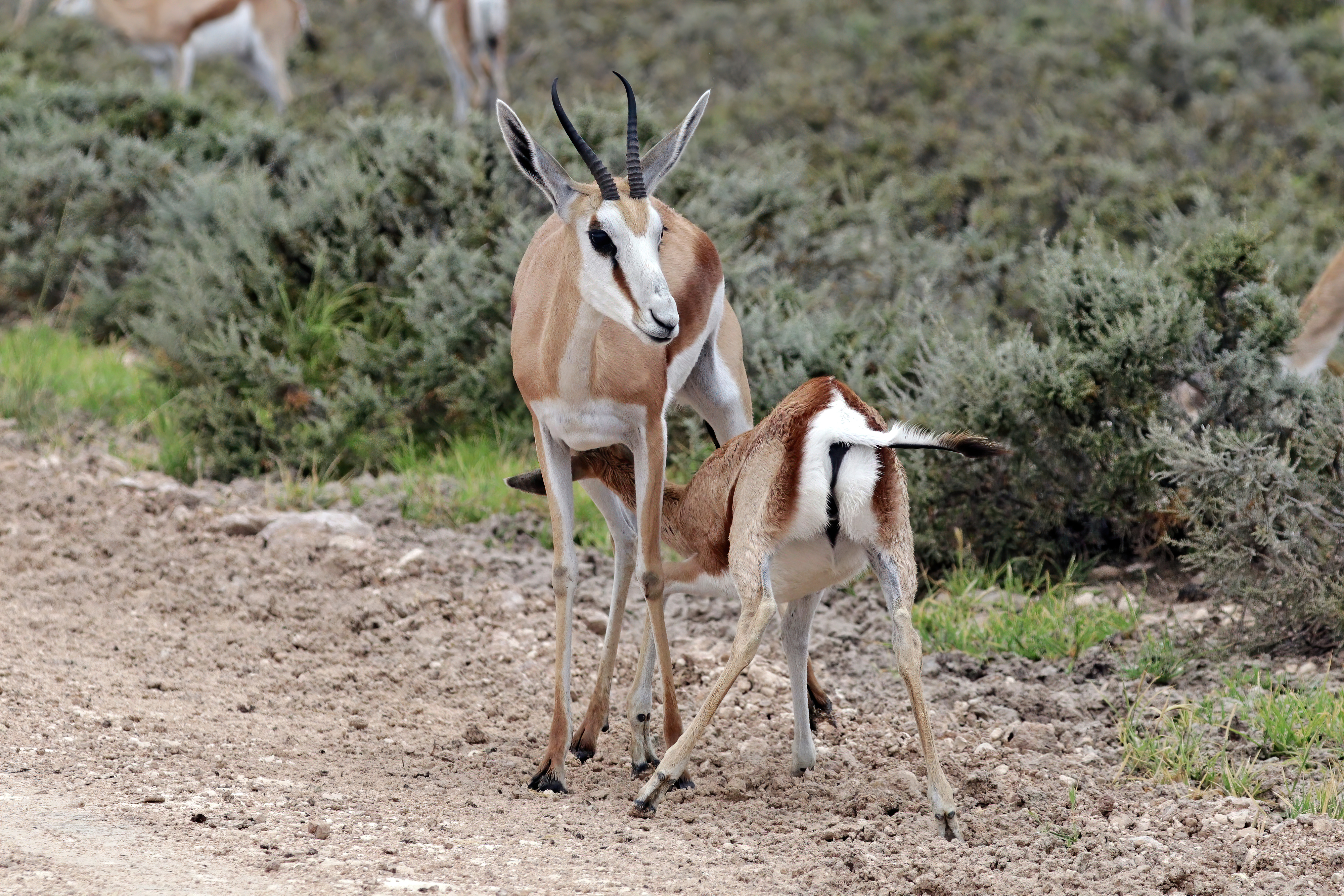 Springbok (Antidorcas marsupialis hofmeyri) suckling, Etosha National Park, Namibia